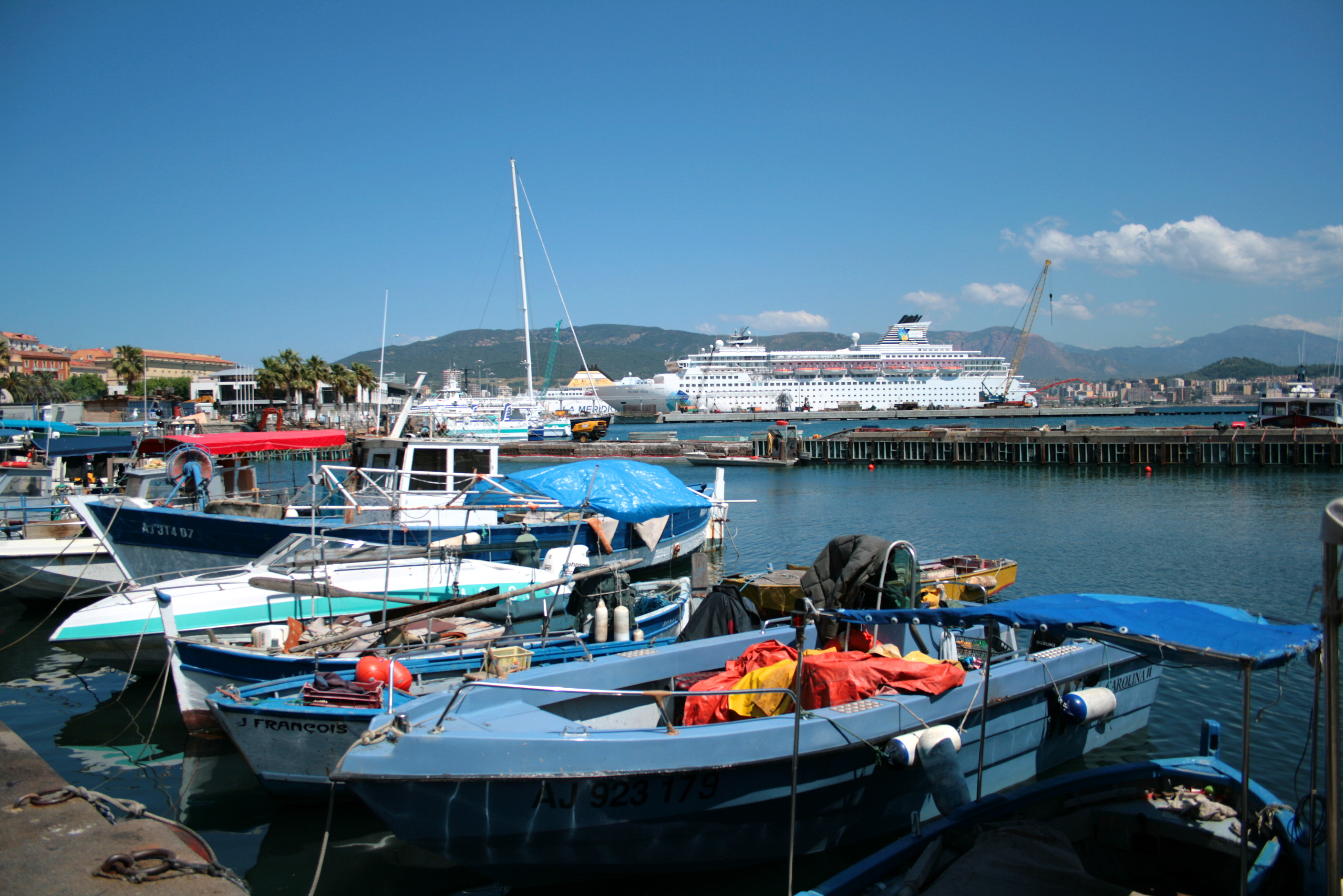 Ajaccio (Corse-du-Sud) - France, the Tino Rossi Harbour.